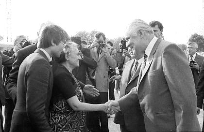 First Secretary of the Central Committee of the Communist Party of Ukraine V.V. Scherbitsky meets Indira Gandhi. Kiev 1982.